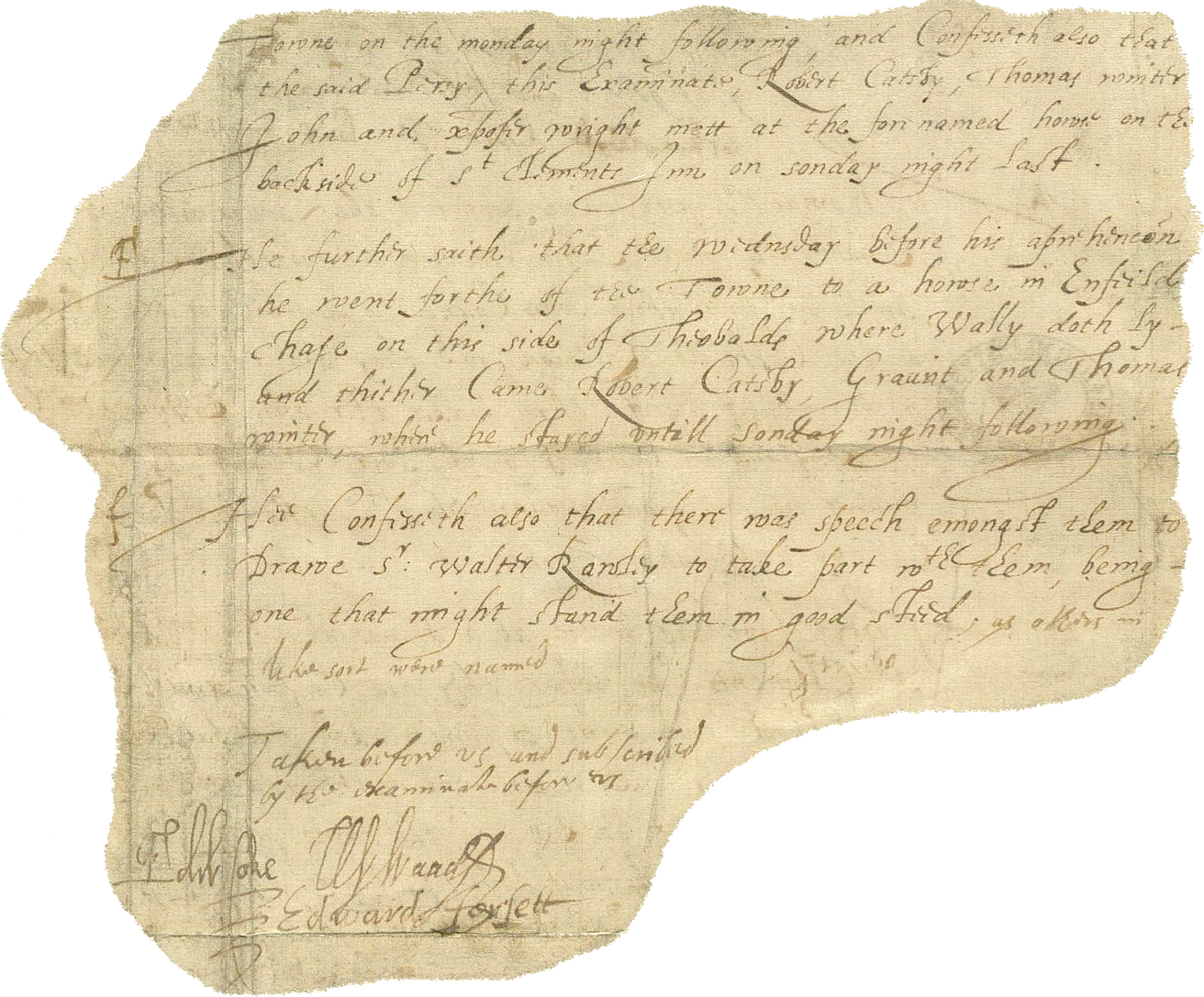 Signature of Guy Fawkes on a confession, 1605. Town on the Monday night following, and confesses also that the said Persy, this examinate, Robert Catsby, Thomas Winter John and Christopher Wright met at the forenamed house on the Backside of St Clement's Inn on Sunday night lastHe further saith that the Wednesday before his aprehension He went forthe of the Towne to a house in Enfield Chase on this side of Theobalds where Wally doth ly And thither came Robert Catsby, Graunt and Thomas Winter, where he stayed untill Sunday night followingHe confesses also that there was speech amongst them to Draw Sir Walter Rawley to take part with them, being One that might stand them in good stead, as others in Like sort were named.(faint) Guido FawkesTaken before us and subscribed By the examinate before usEd(war)d CokeA S Waad (Wade)Edward Forsett